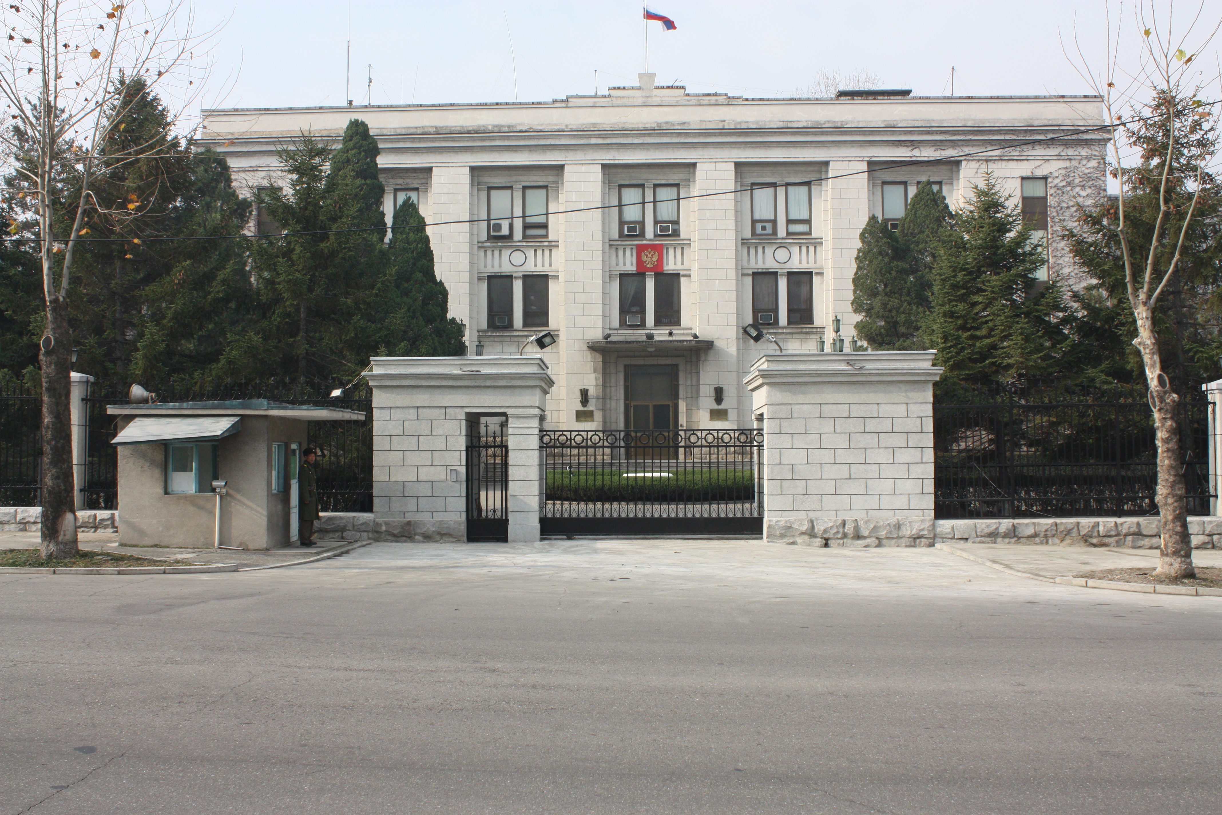 Façade of the Russian embassy in Pyongyang, North Korea.